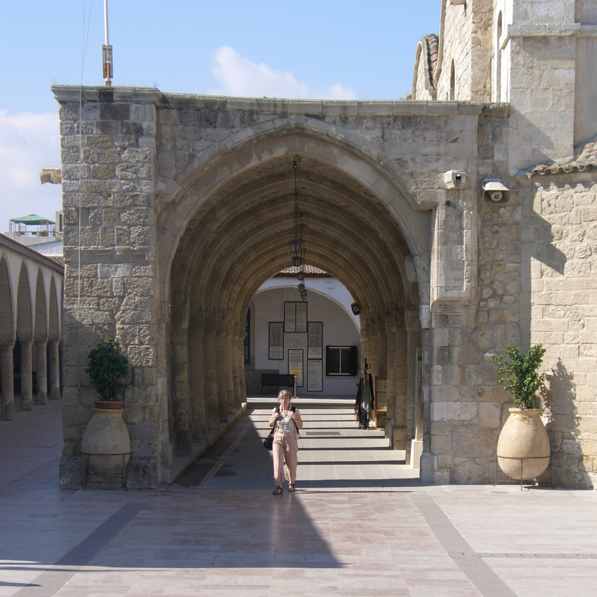 St Lazarus Cathedral, Larnaca, Cyprus.